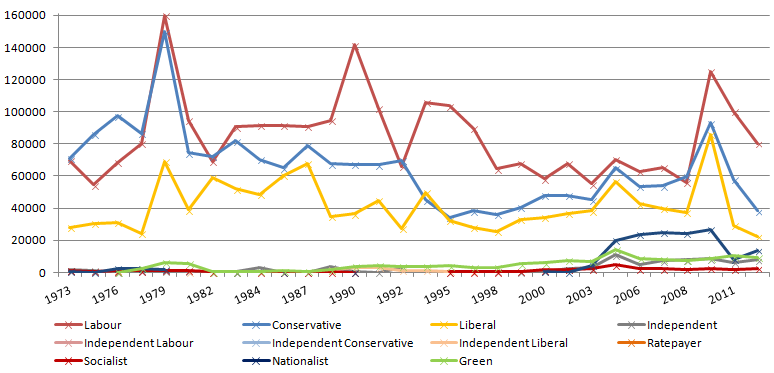 Votes cast in the Leeds local elections between 1973 and 2012 Labour: Labour Conservative: Conservative Liberal: Liberal, Alliance, SLD, Liberal Democrats Independent: Independents, Seacroft Party, Morley Borough Independents Independent Labour: Independent Labour Independent Conservative: Independent Conservative Independent Liberal: SDP, Liberal Socialist: CPGB, Revolutionary Communist, Militant Labour, Leeds Left Alliance, Socialist Alliance, Socialist Labour, AGS, Respect, TUSC Nationalist: National Front, BNP, UKIP, English Democrats, BPP Greens: Ecology, Greens Ratepayer: Ratepayers Association